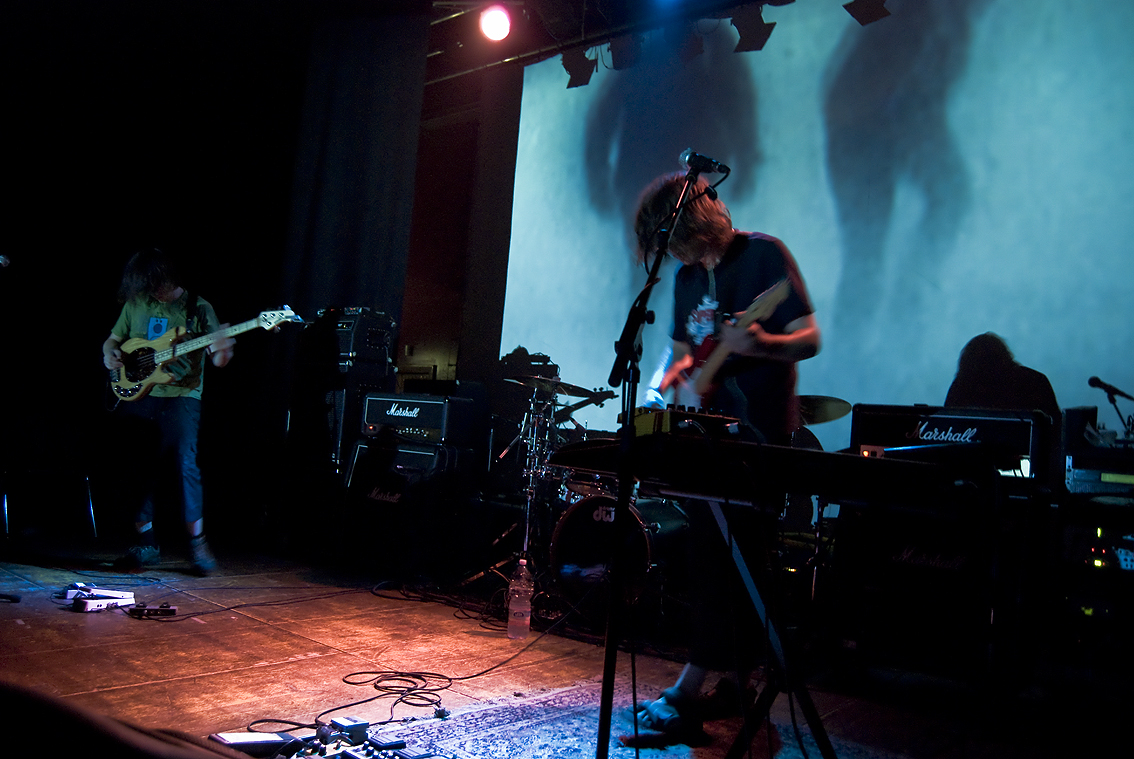 Irish post-rock band God Is an Astronaut performing live at Locomotiv 13 in Bologna, Italy on 30 May 2009.